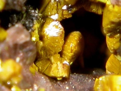 Carnotite Locality: Mashamba West Mine, Kolwezi, Western area, Katanga Copper Crescent, Katanga (Shaba), Democratic Republic of Congo (Zaïre) (Locality at ) Size: 8 x 3.5 x 3 cm. A very good specimen of rarely crystallized Carnotite from the Mashamba West mine. These where found in the middle 80’s and are considered as the best in the world for crystals of the species. This piece is literally filled with hundreds of sharp crystals sometimes reaching 1.5mm.